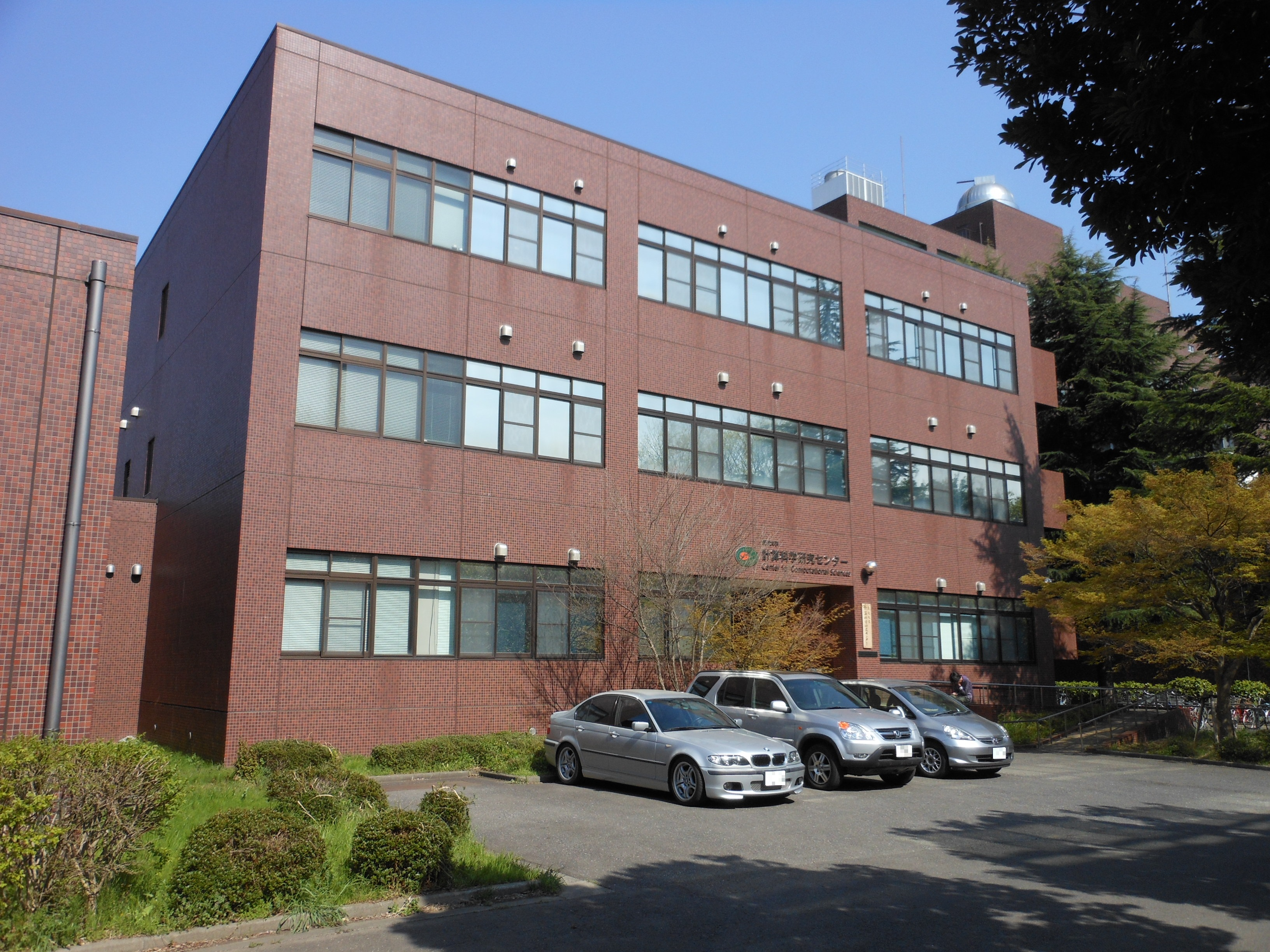 This is the Center for Computational Sciences, University of Tsukuba, which is located in Tsukuba, Ibaraki, Japan.